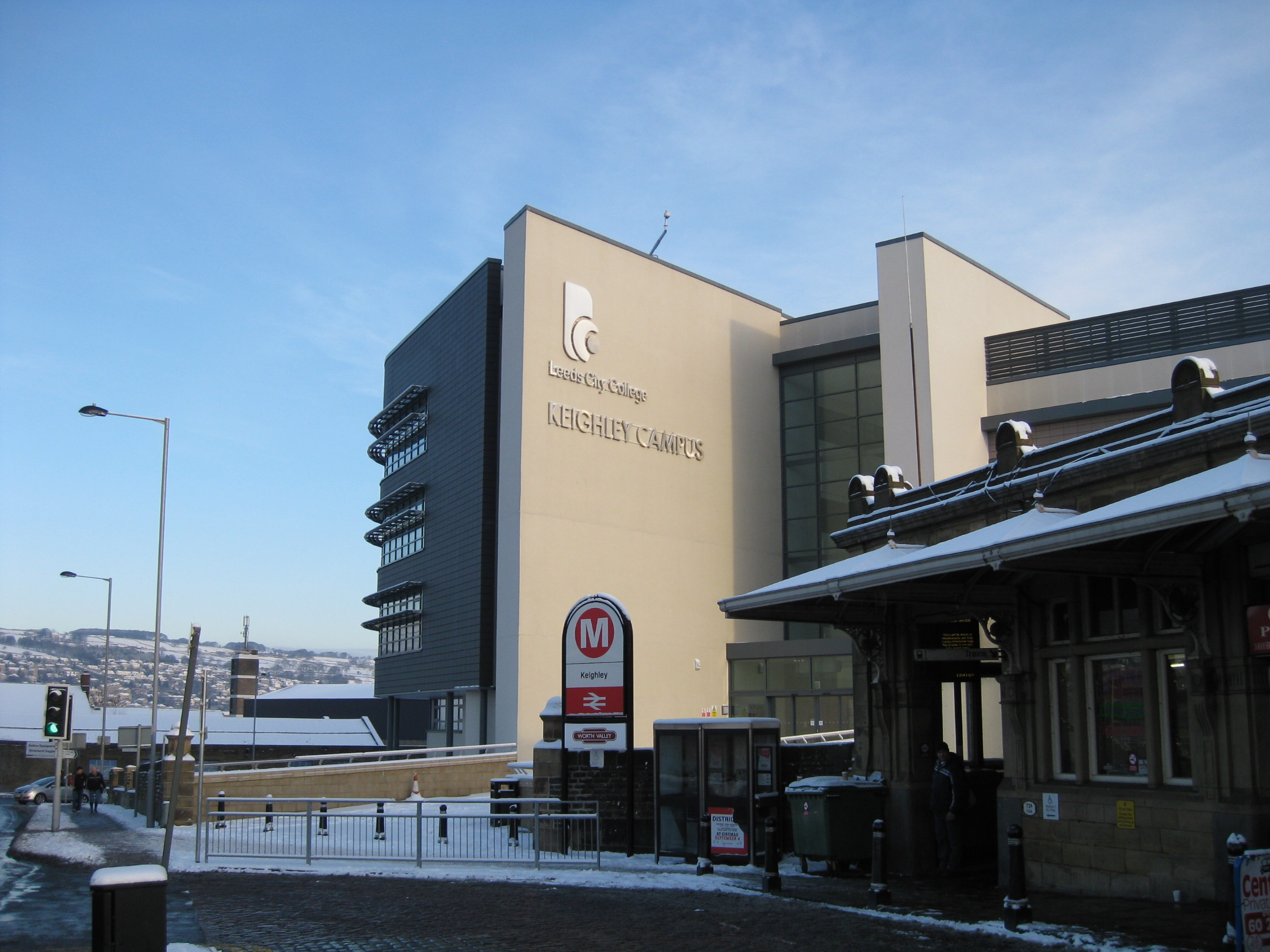 Leeds City College, Keighley Campus, beside Keighley Railway Station